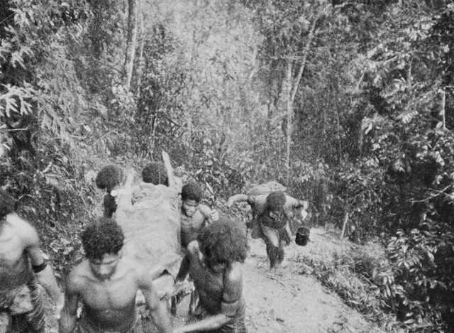 AWM Caption: New Guinea: Papua New Guinea, Papua, Owen Stanley Range, Kokoda Trail, Eora Creek. NATIVE BEARERS (POPULARLY KNOWN AS FUZZY WUZZY ANGELS) CARRY A WOUNDED AUSTRALIAN SOLDIER ON A STRETCHER. THEY ARE MOVING UP A STEEP HILL TRACK THROUGH THICK TROPICAL JUNGLE.